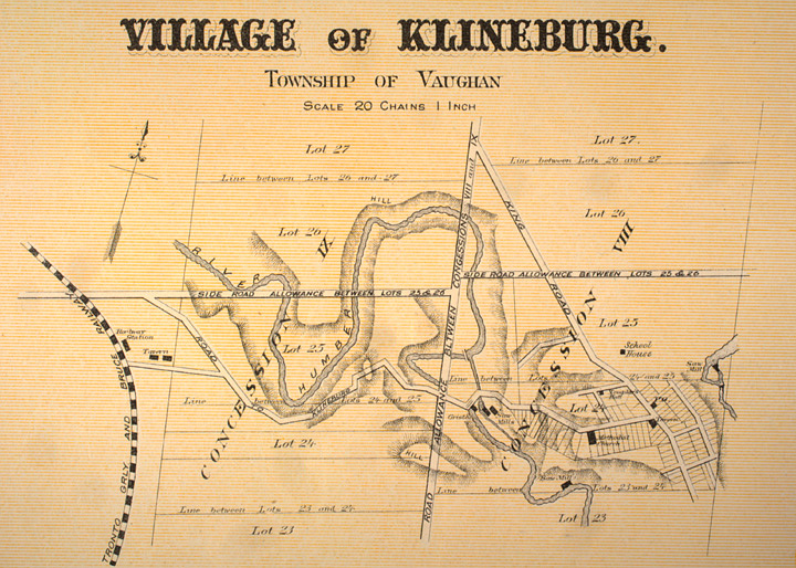 Map of Kleinburg, in York County, Ontario from 1878, showing Concessions VIII and IX, lots 21-27. This is a digitally sharpened version of the source image.